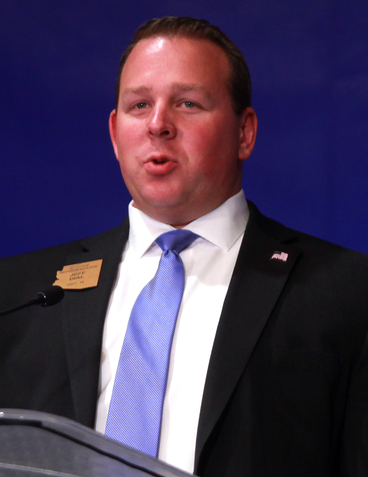 Jeff Dial speaking at an event in Phoenix, Arizona.